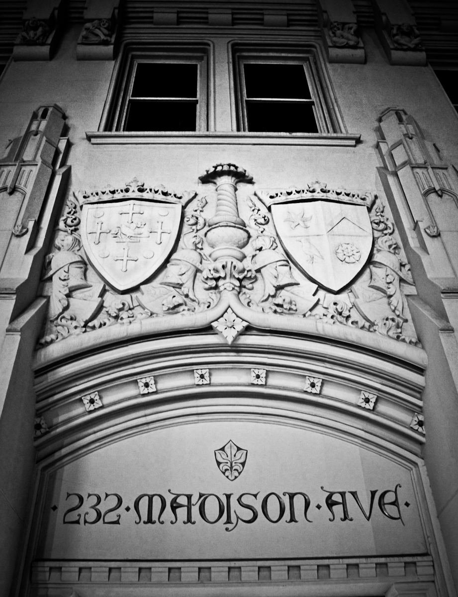 232 Madison Ave, New York City, NY - Polhemus & Coffin, AIA 1929